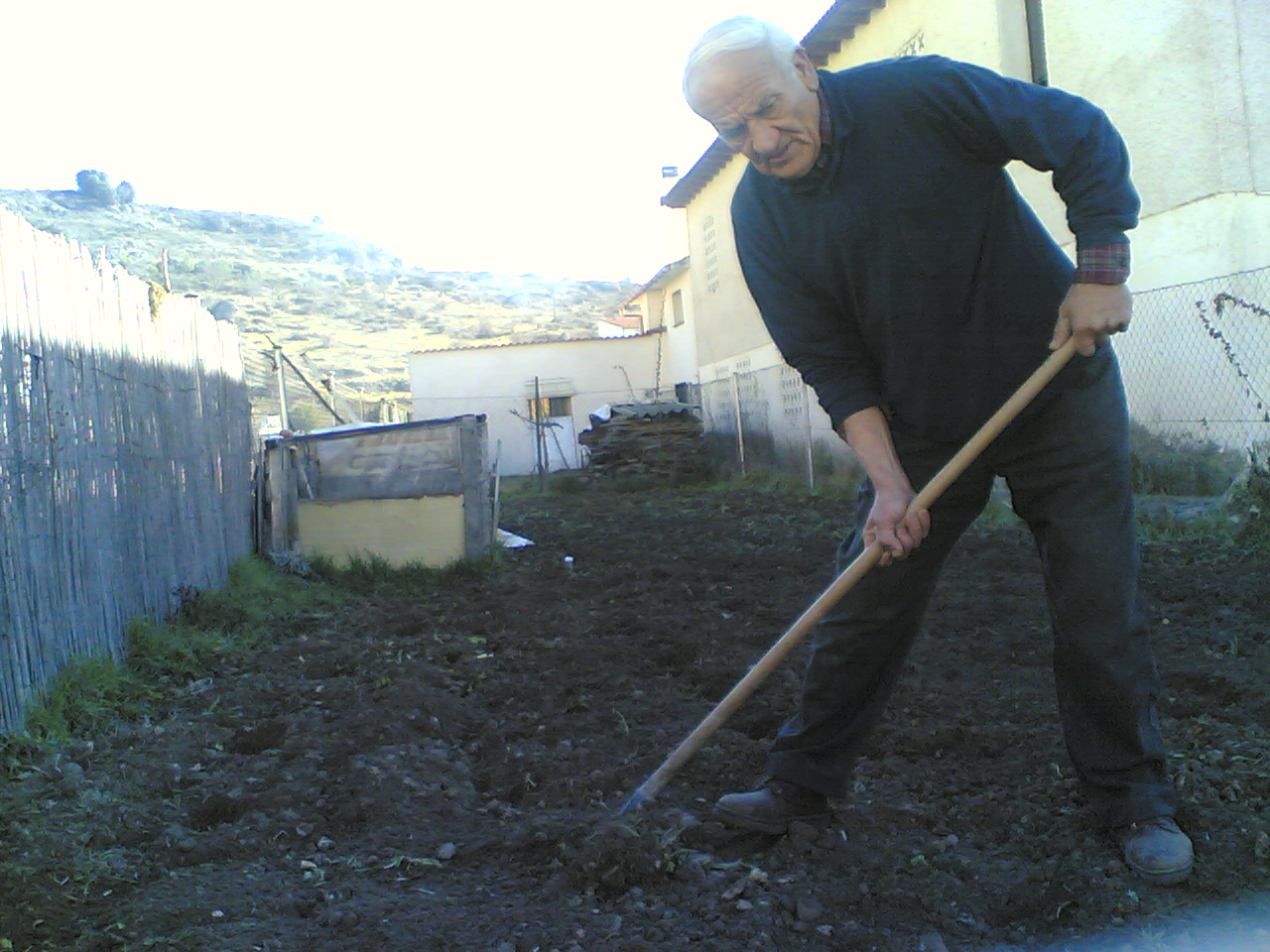 D. M. A. In Agriculture / "Actually, for our cause was written, because the man who must is ploughing with hope, and the man who threshing should do so with hopes of being a participant." 1 Co 9: 10